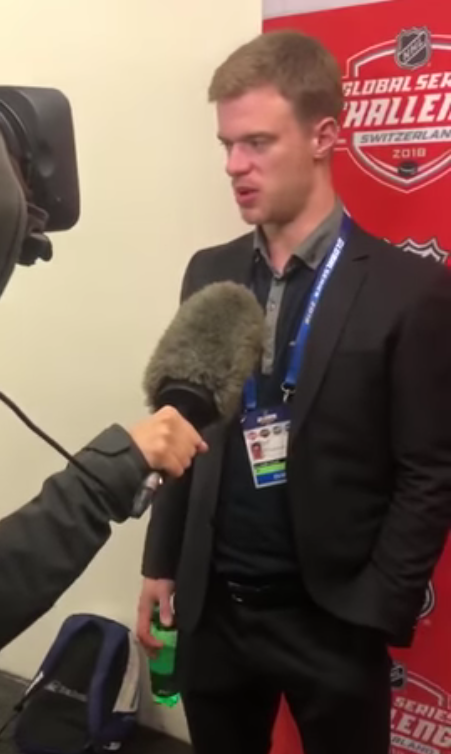 Mirco Müller 2018-09-29